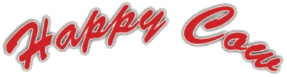 Logo of Happy Cow, a dairy company.